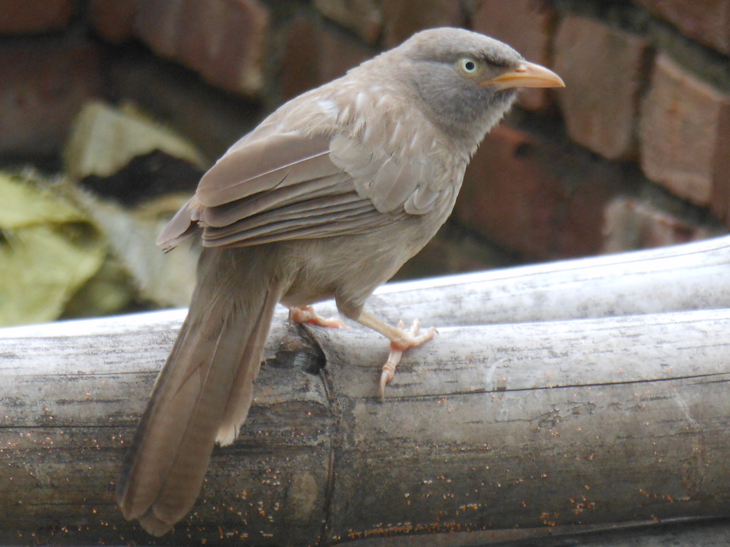 Jungle Babbler in rest